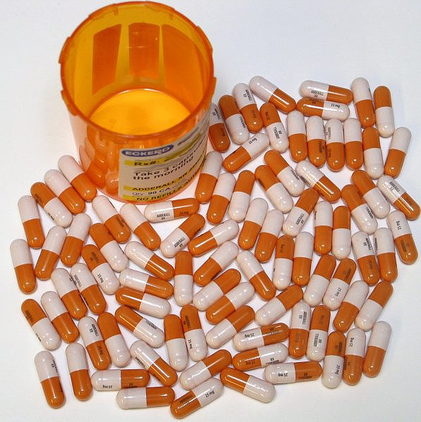 Adderall